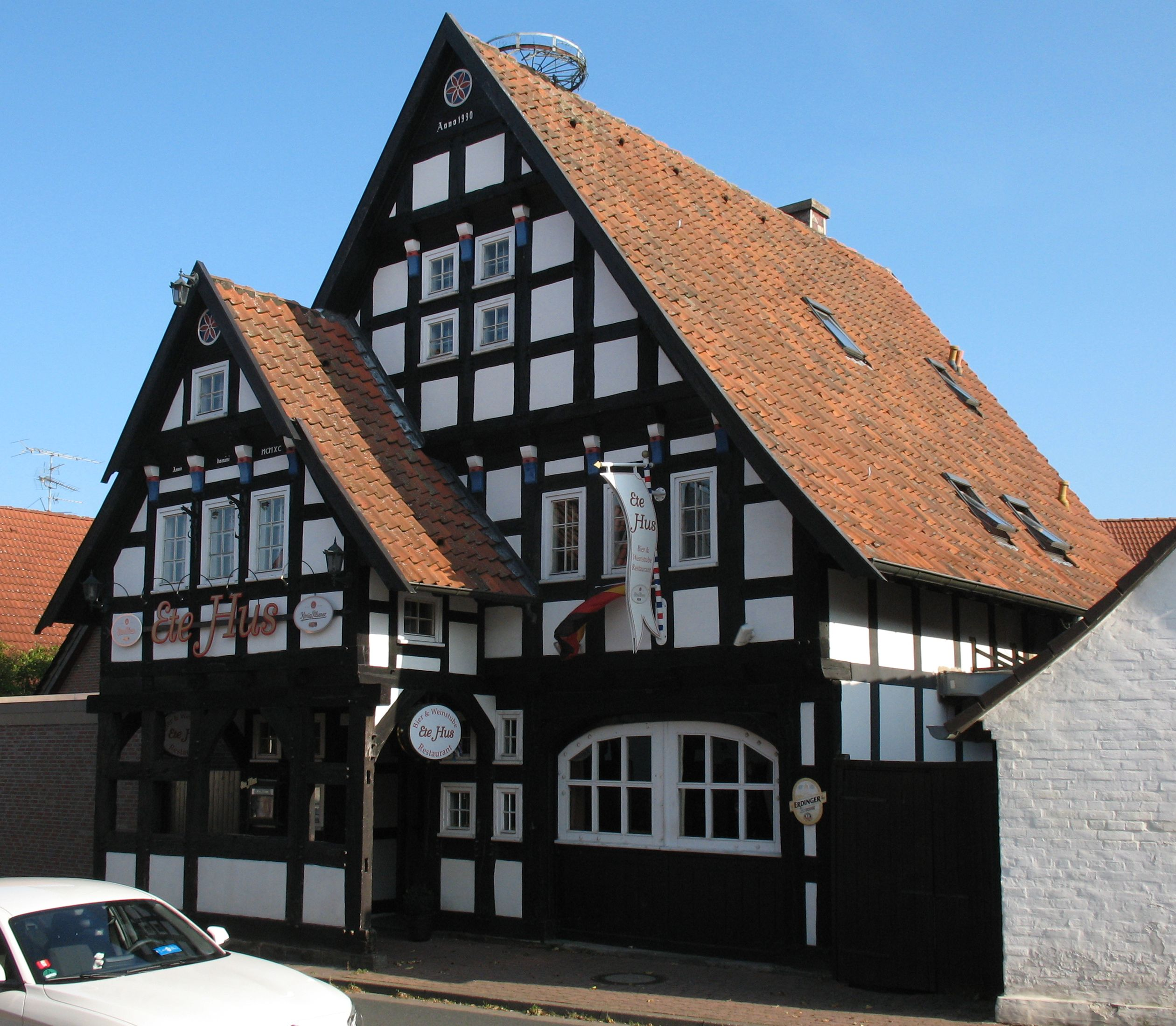 Timber framed house in Wunstorf-Steinhude in Lower Saxony, Germany